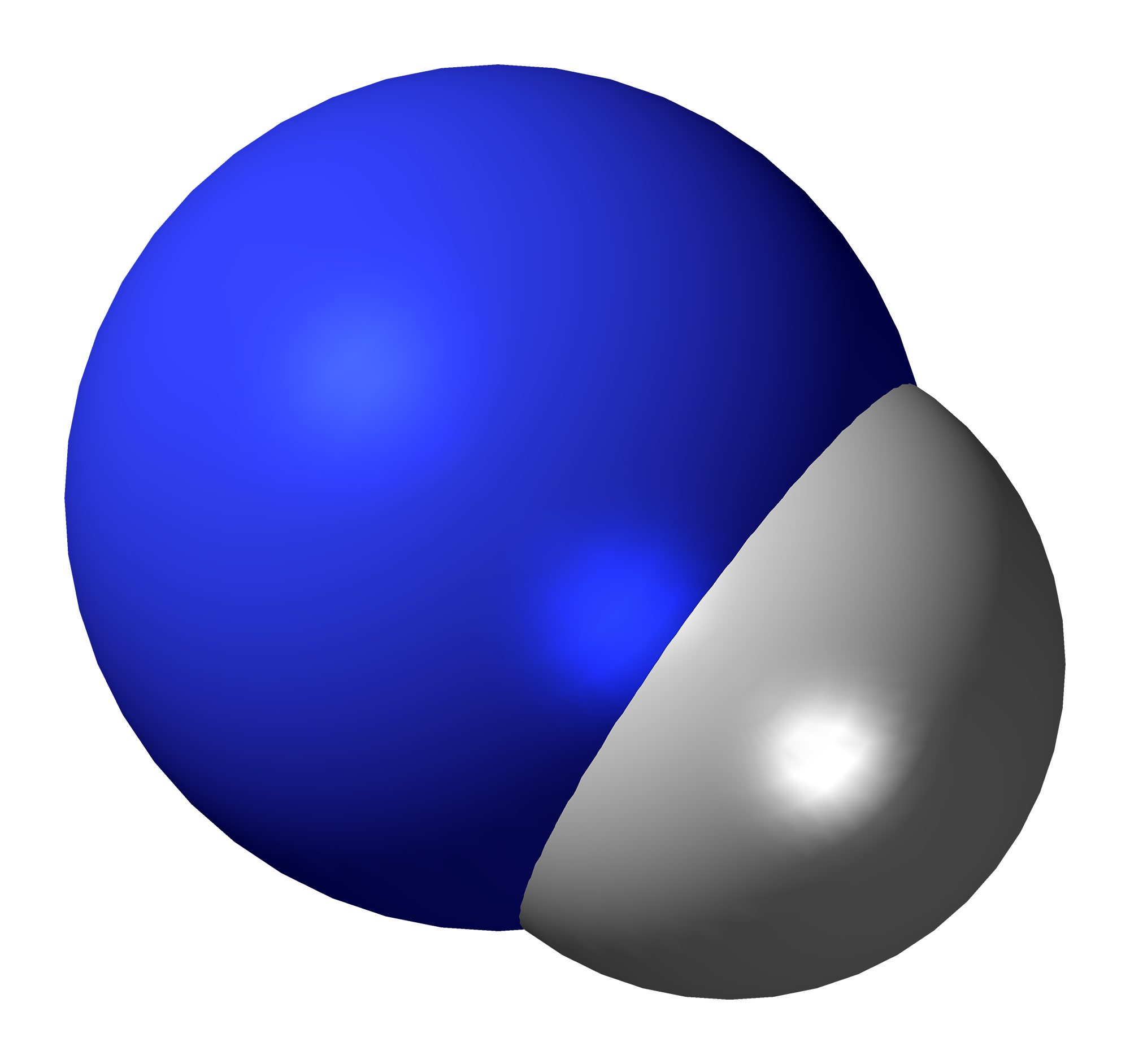 Space-filling model of the imidogen radical, also known as nitrene, a reactive intermediate. Color code: Nitrogen, N: blue Hydrogen, H: white